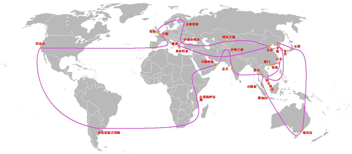 2008 Summer Olympics torch relay map